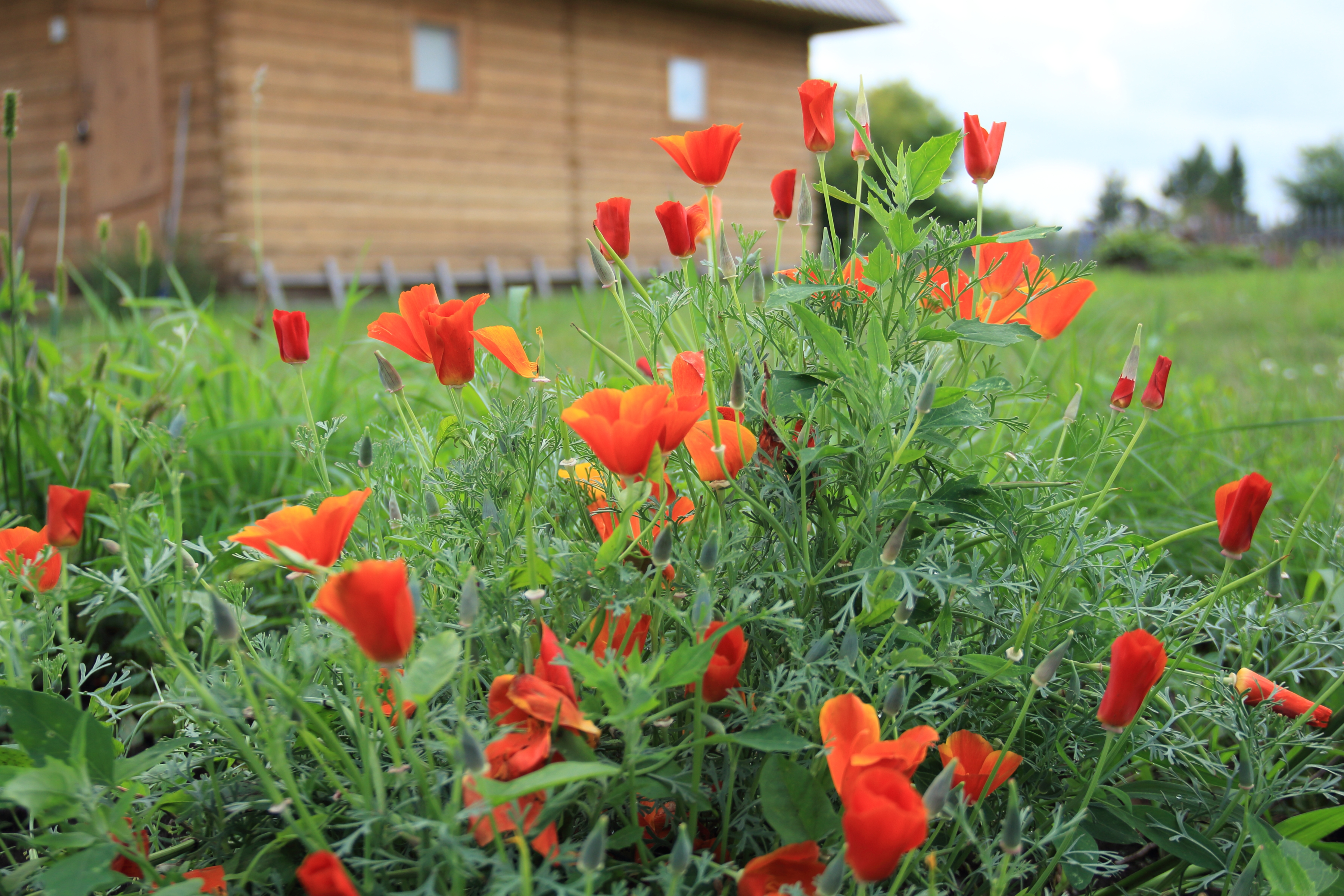 Eschscholzia californica near my suburban house